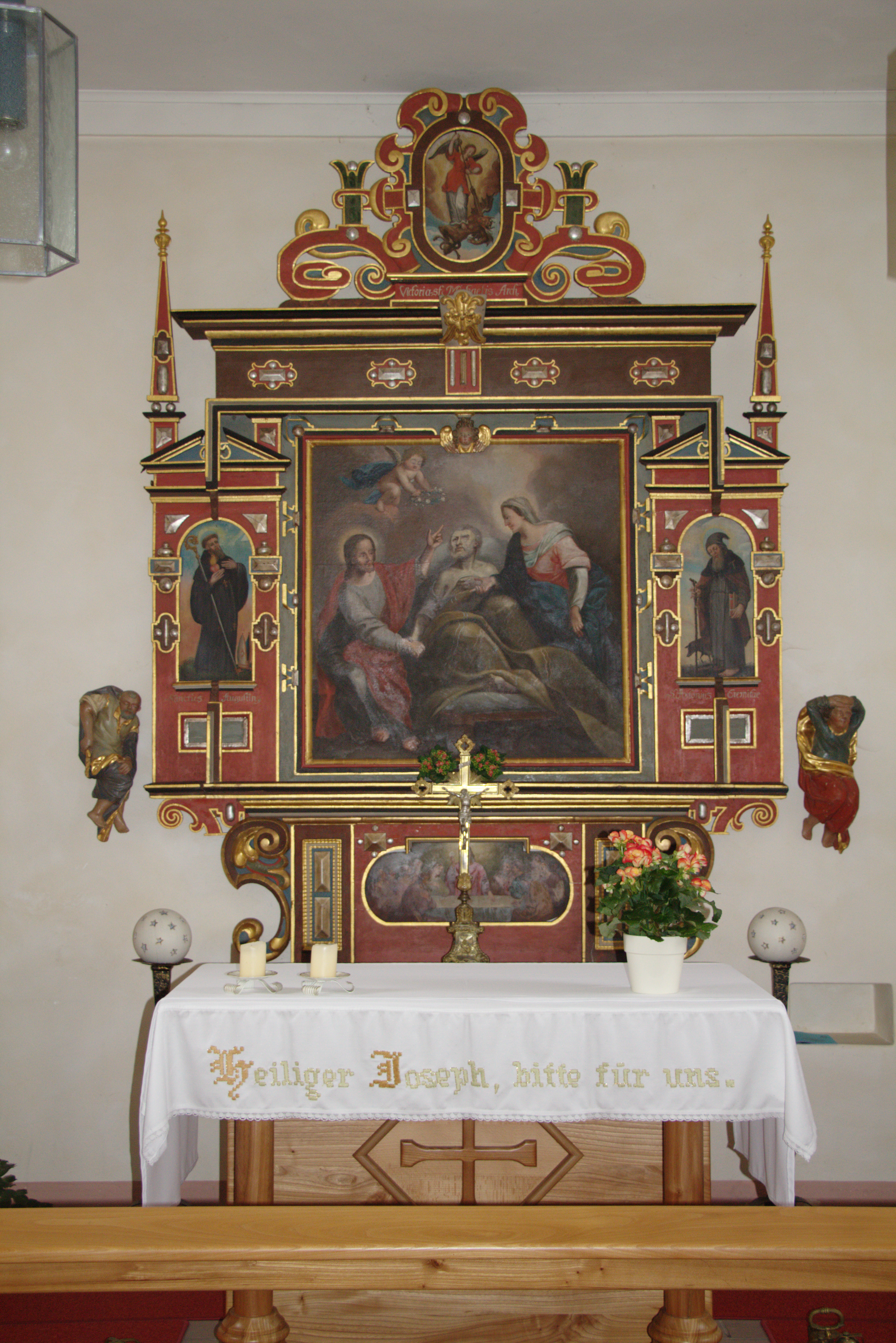 Catholic Church (St. Josef Kapelle) in Mittelrode, Fulda, Hesse, Germany